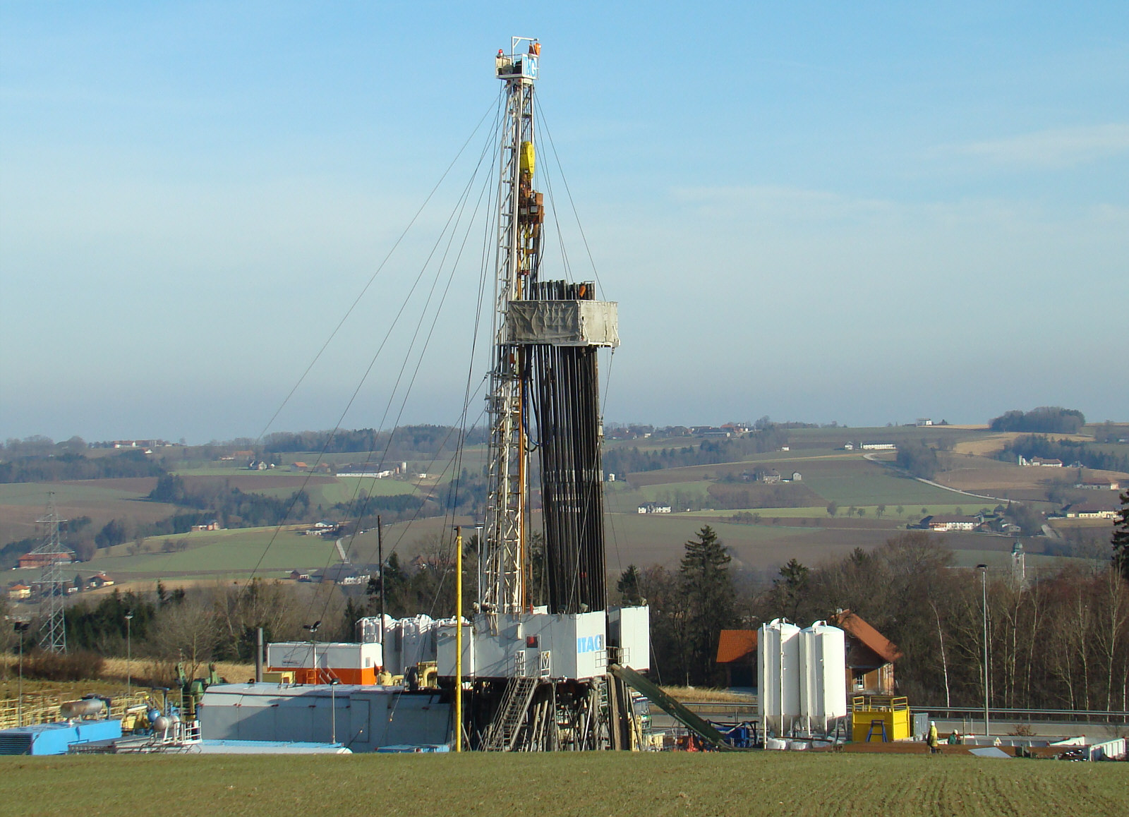 Drilling rig at the oil field of Hiersdorf in Upper Austria